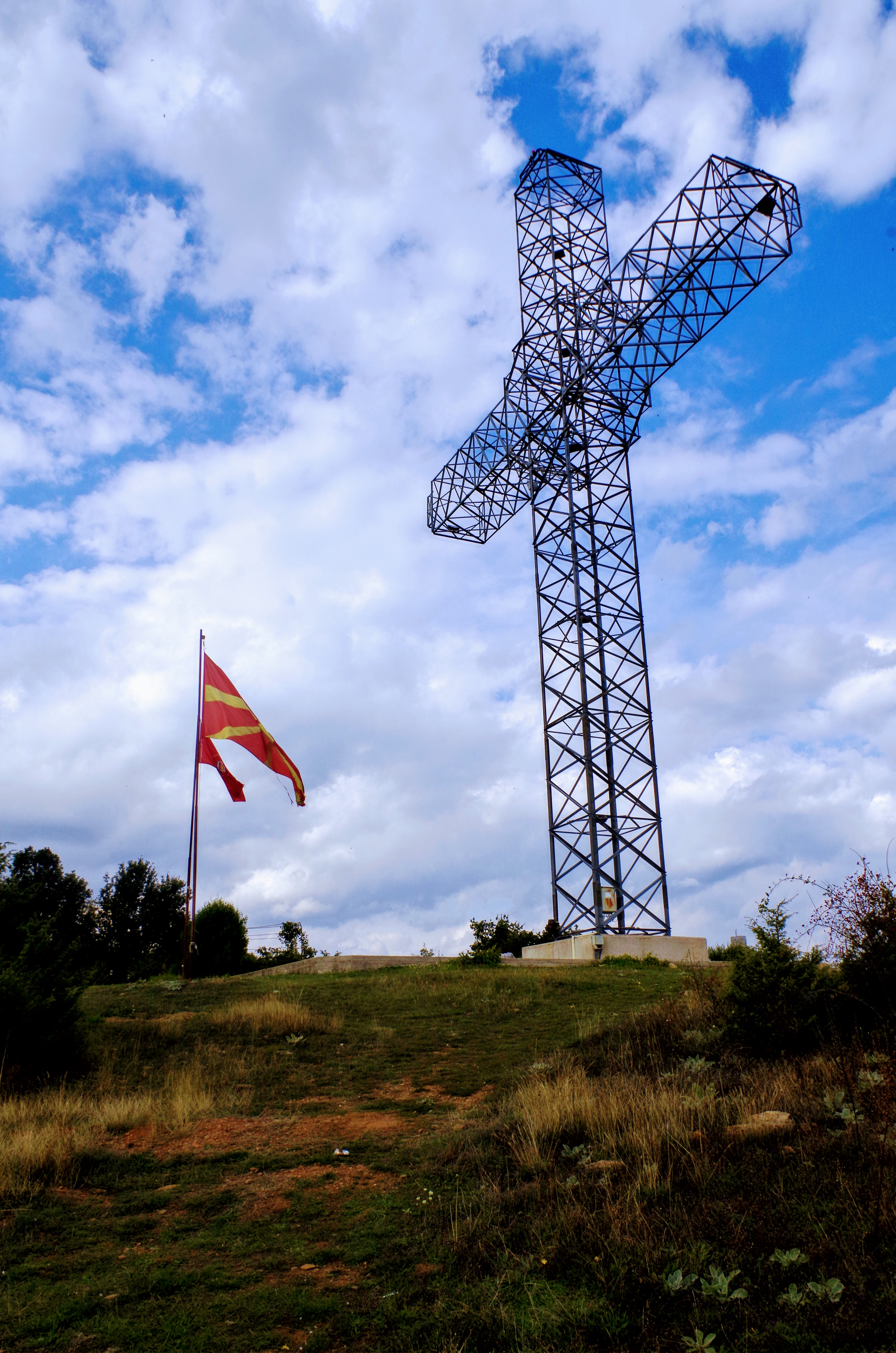 View of the village Podmočani